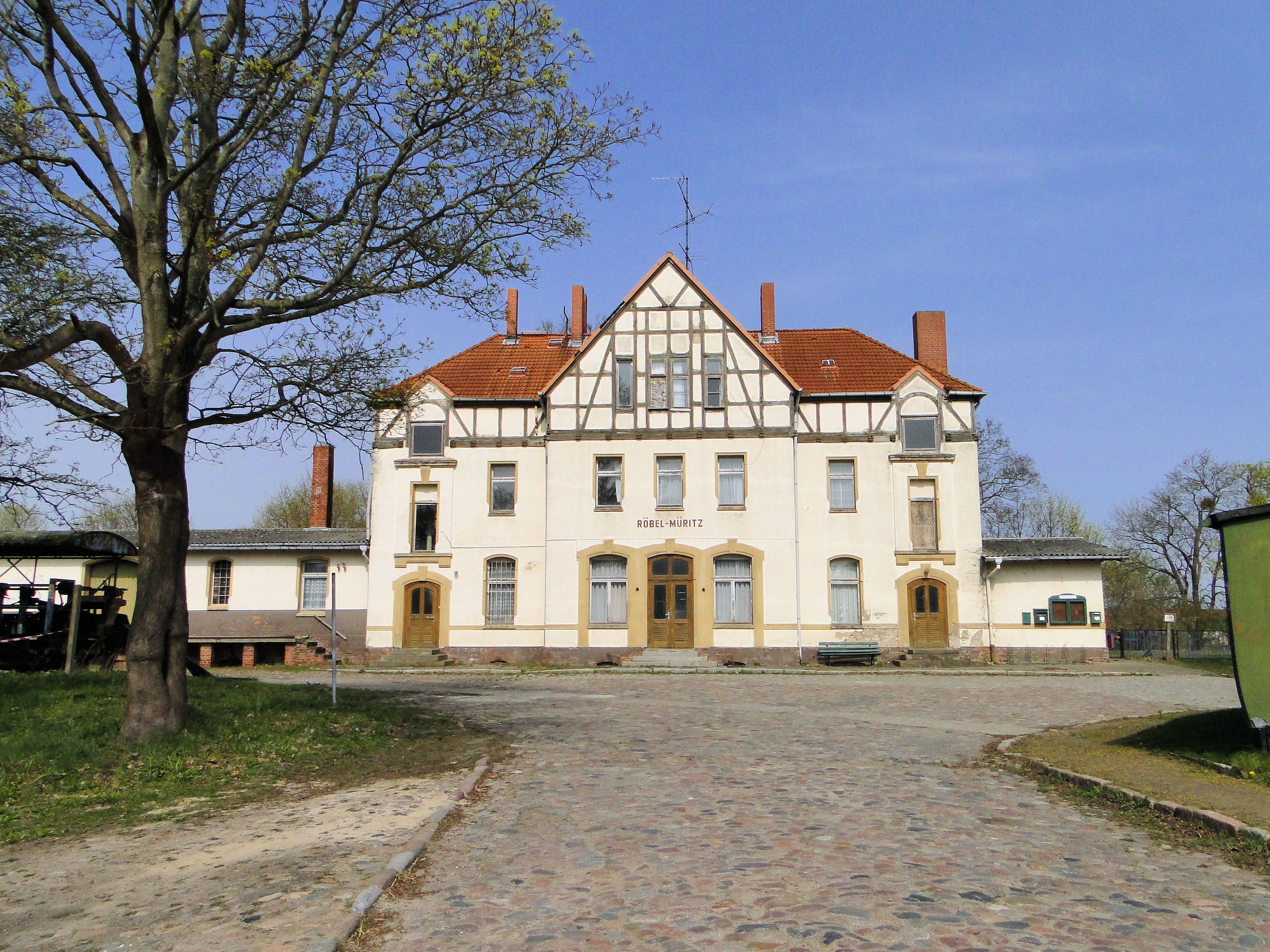 Train station in Röbel/Müritz, disctrict Müritz, Mecklenburg-Vorpommern, Germany